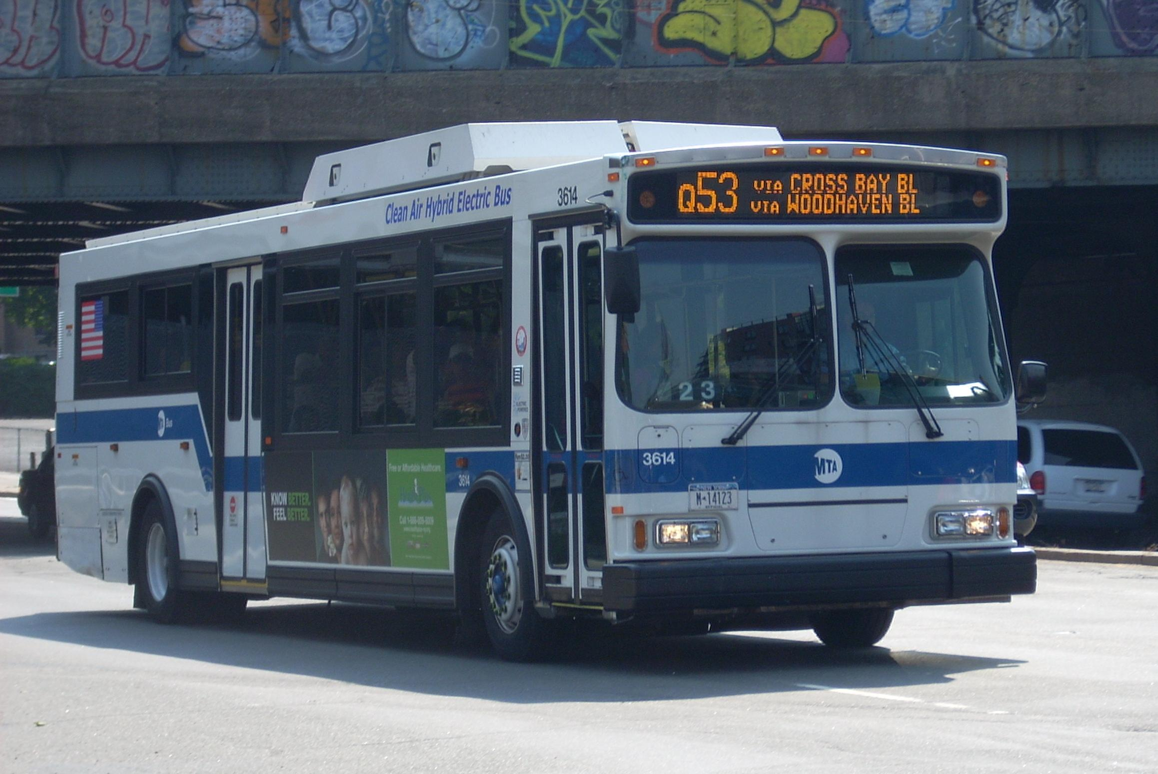 Hybrid Q53 bus at Woodhaven Boulevard and Eliot Avenue